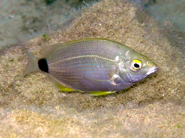 Diplodus annularis photographed on Paros island (Greece)